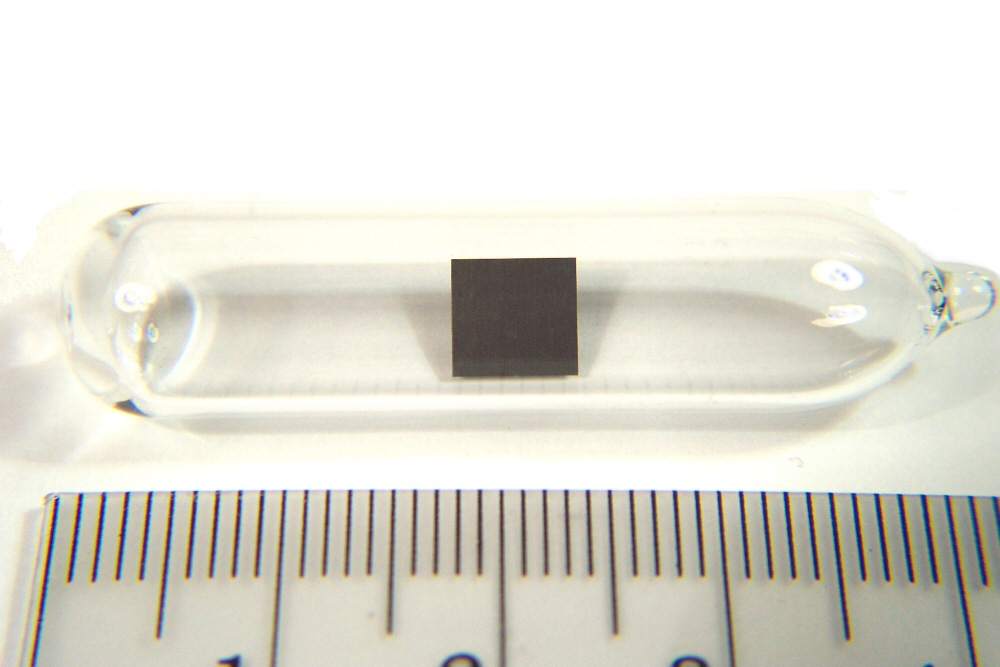 Thorium sample (99.9 % = 3N), thin sheet under argon in a glass ampoule, ca. 0.1 g